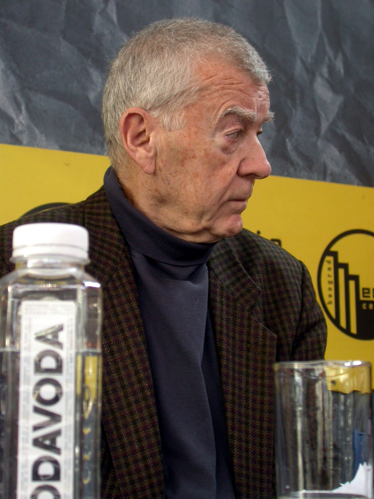 Živorad Kovačević